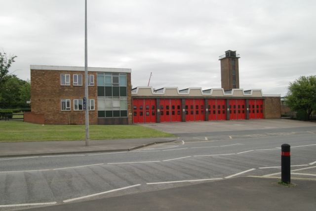 Burnley fire station Burnley fire station, Belvedere Road, Burnley, Lancashire